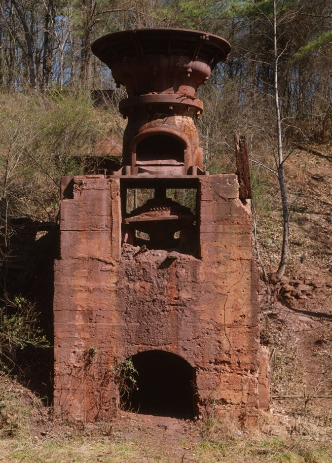 Ruffner Red Ore Mine gyratory crusher, North of I-20 at Madrid Exit, Birmingham (Jefferson County, Alabama) cropped This image or media file contains material based on a work of a National Park Service employee, created as part of that person's official duties. As a work of the U.S. federal government, such work is in the public domain. Creator: U.S. Department of the Interior, National Park Service, Historic American Engineering Record. Survey number HAER al18 Source: U.S. Library of Congress, Prints and Photographs Division, "Built in America" Collection. Copyright: "The records in HABS/HAER were created for the U.S. Government and are considered to be in the public domain." [1]